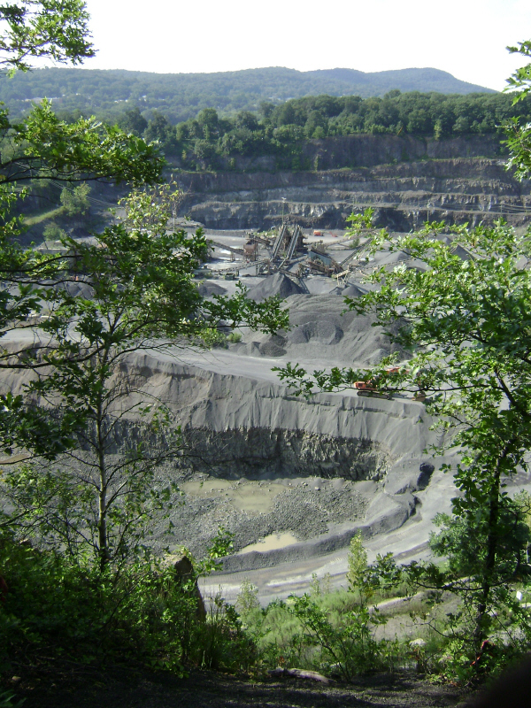 An active quarry is seen in Prospect Park on Goffle Hill, part of First Watchung Mountain.